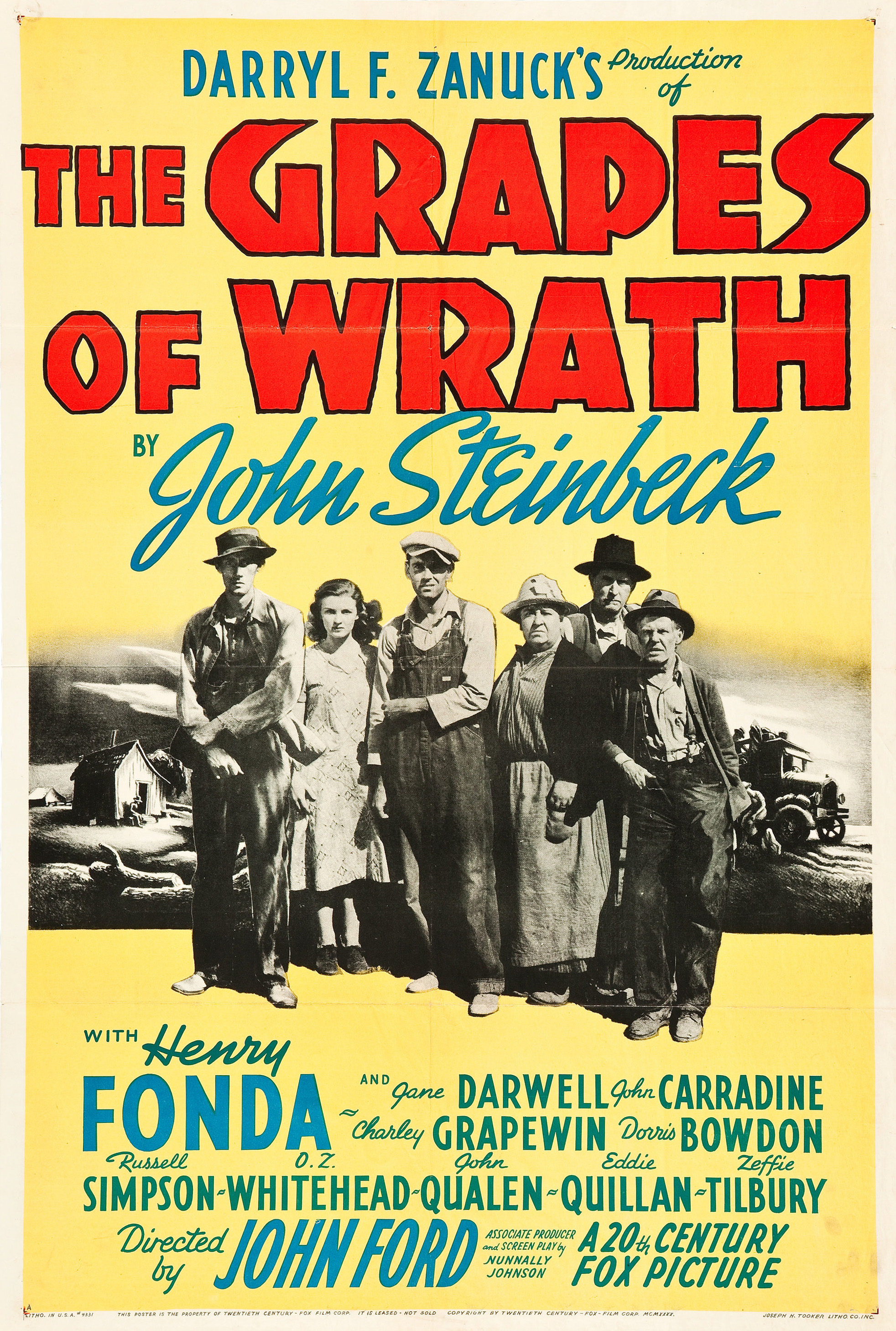 Theatrical poster for the 1940 film The Grapes of Wrath, an adaptation of John Steinbeck's.